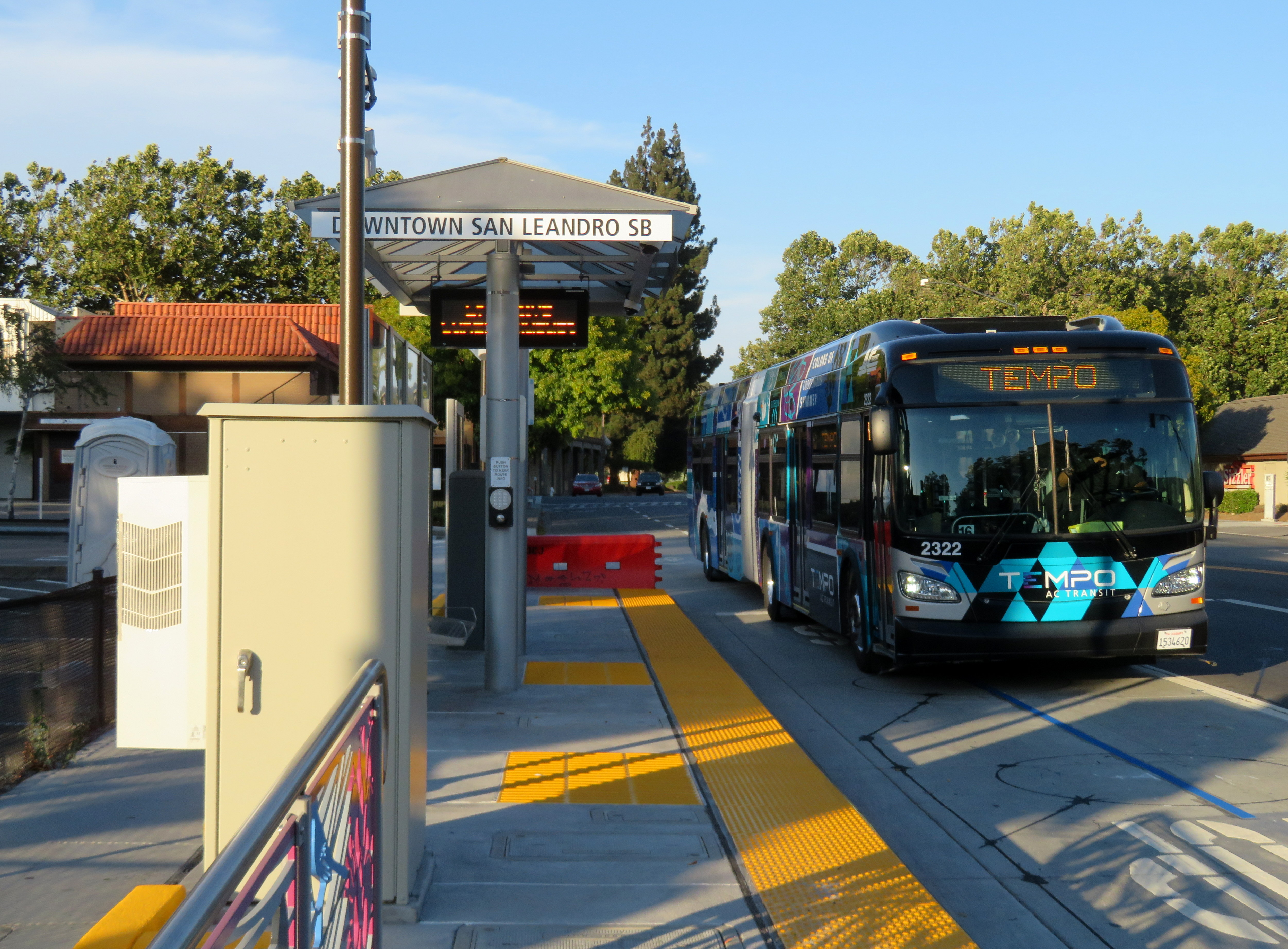 A southbound bus at Downtown San Leandro station on the first day of operations in August 2020